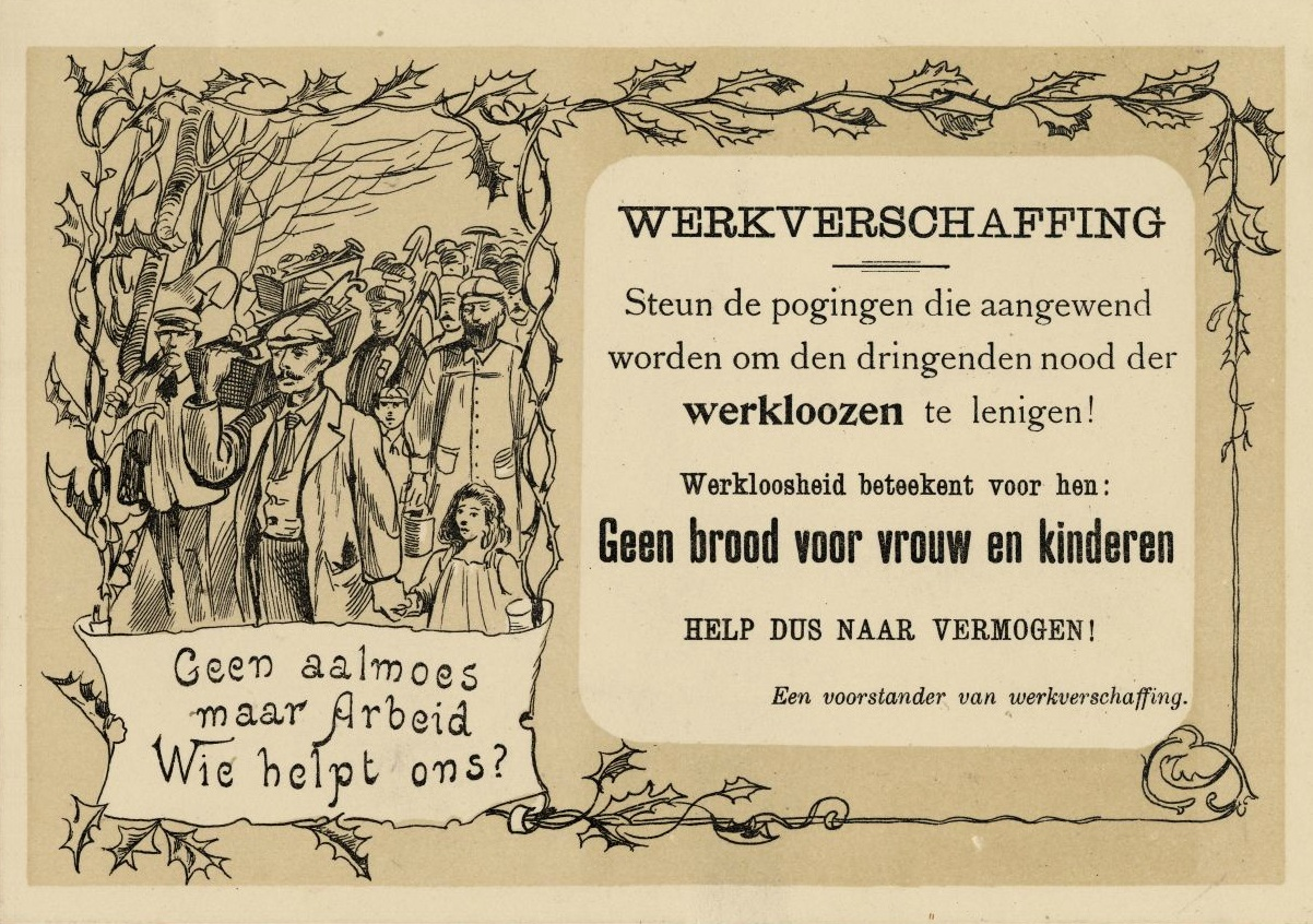 Pamphlet/leaflet in Dutch from 1907 with an appeal for aid -in the form of public works- for the unemployed. Image: procession of the unemployed. Text in lower left corner says: "Not a handout but Labour, who helps us?"